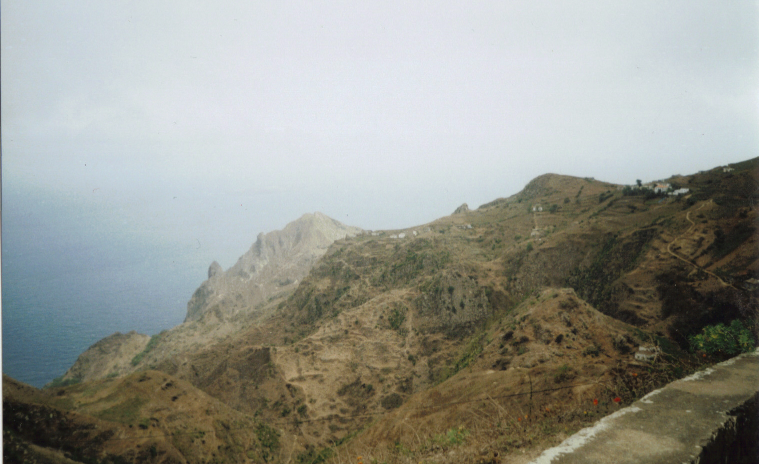 General view of Cova Rodela, Brava, Cabo Verde